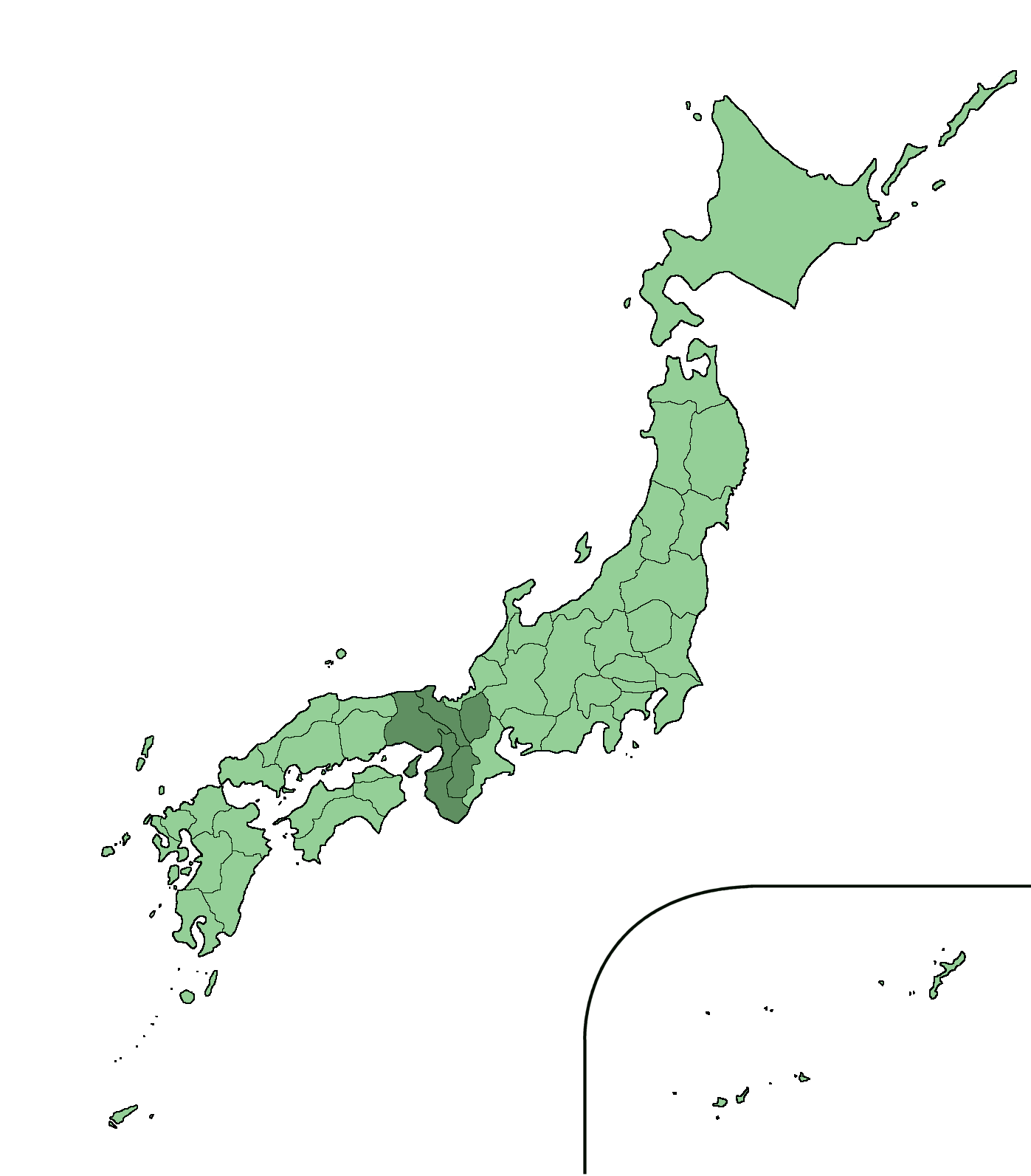 Large size map of Japan with Kansai region highlighted, self made but originally based on Image:Japan large.png.